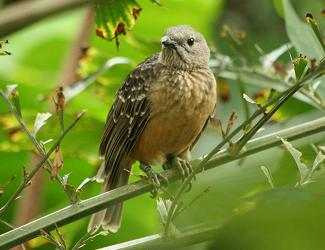 Fawn-breasted Bowerbird